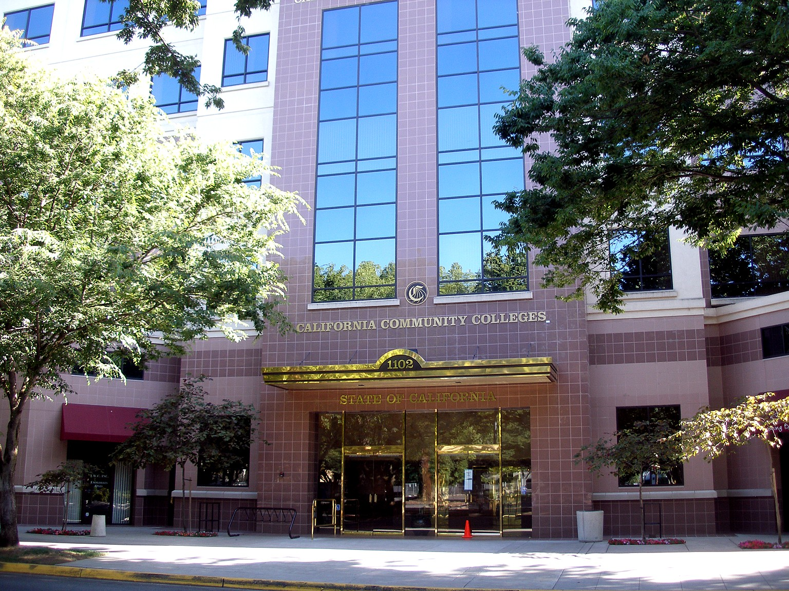 The entrance to the headquarters of the California Community Colleges at 1102 Q Street in downtown Sacramento. This building is also home to the Bureau of Narcotic Enforcement of the California Department of Justice.